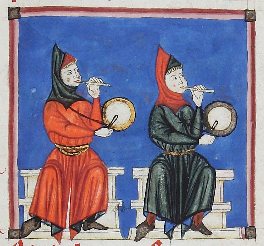 Illustration from Cantigas de Santa Maria manuscript. The Cantigas de Santa Maria (Songs to the Virgin Mary) are manuscripts written in Galician-Portuguese, with music notation, during the reign of Alfonso X El Sabio (1221-1284) and are one of the largest collections of monophonic (solo) songs from the middle ages.